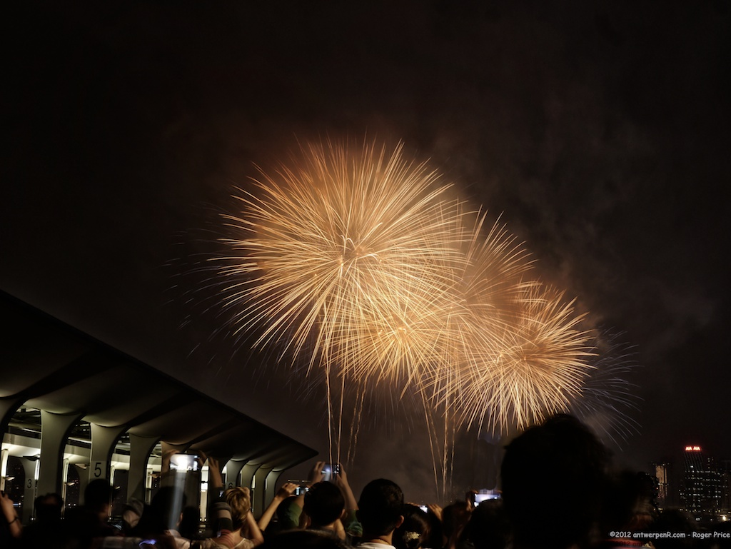 After a sweaty sprint, I did manage to find a new location - albeit with a less than unobstructed view